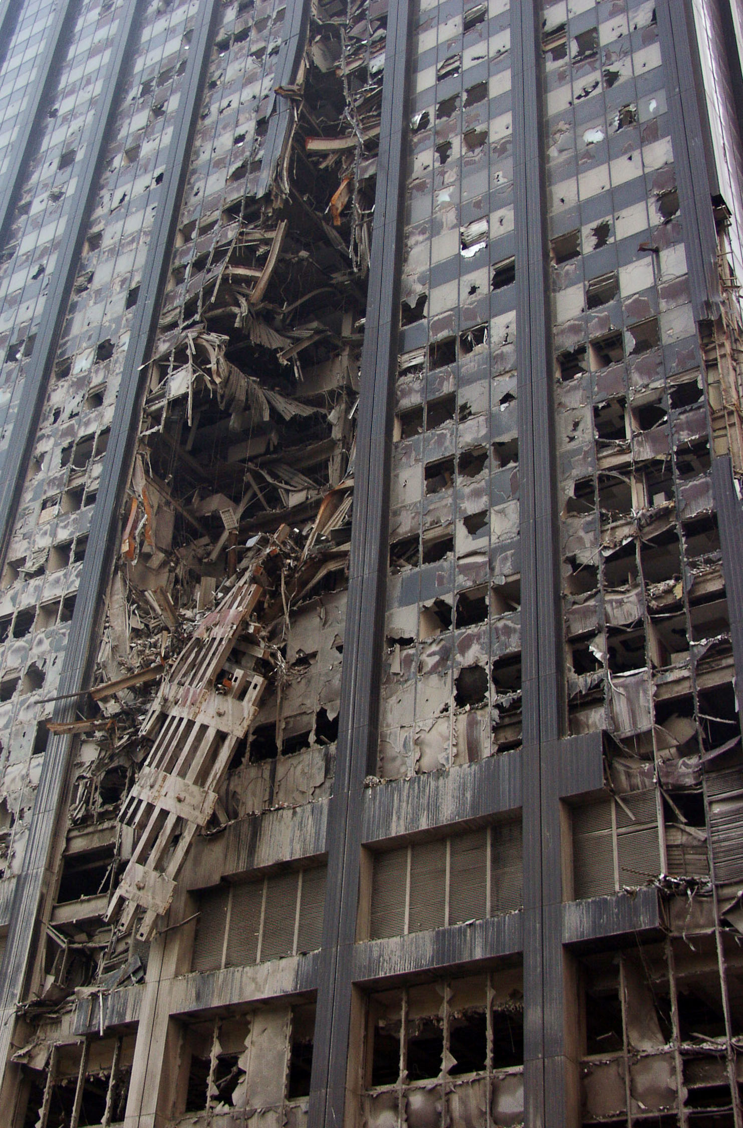 Deutsche Bank Building damaged by falling debris. Original description by FEMA: "New York, NY, September 21, 2001 -- This building adjoining the World Trade Center sustained considerable damage during the terrorist attack. Photo by Michael Rieger/ FEMA News Photo"